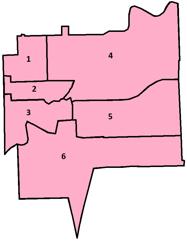 Map of Welland, Ontario's ward map